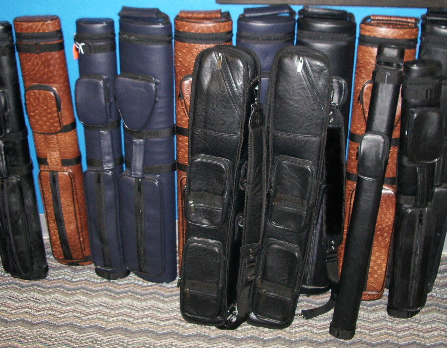 A variety of cue cases.